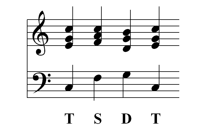 musical example for harmonic functions: simple cadence in C major